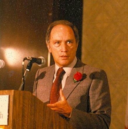 Pierre Trudeau speaking at a fundraising meeting for the Liberal Party at the Queen Elizabeth Hotel in Montréal, Québec.